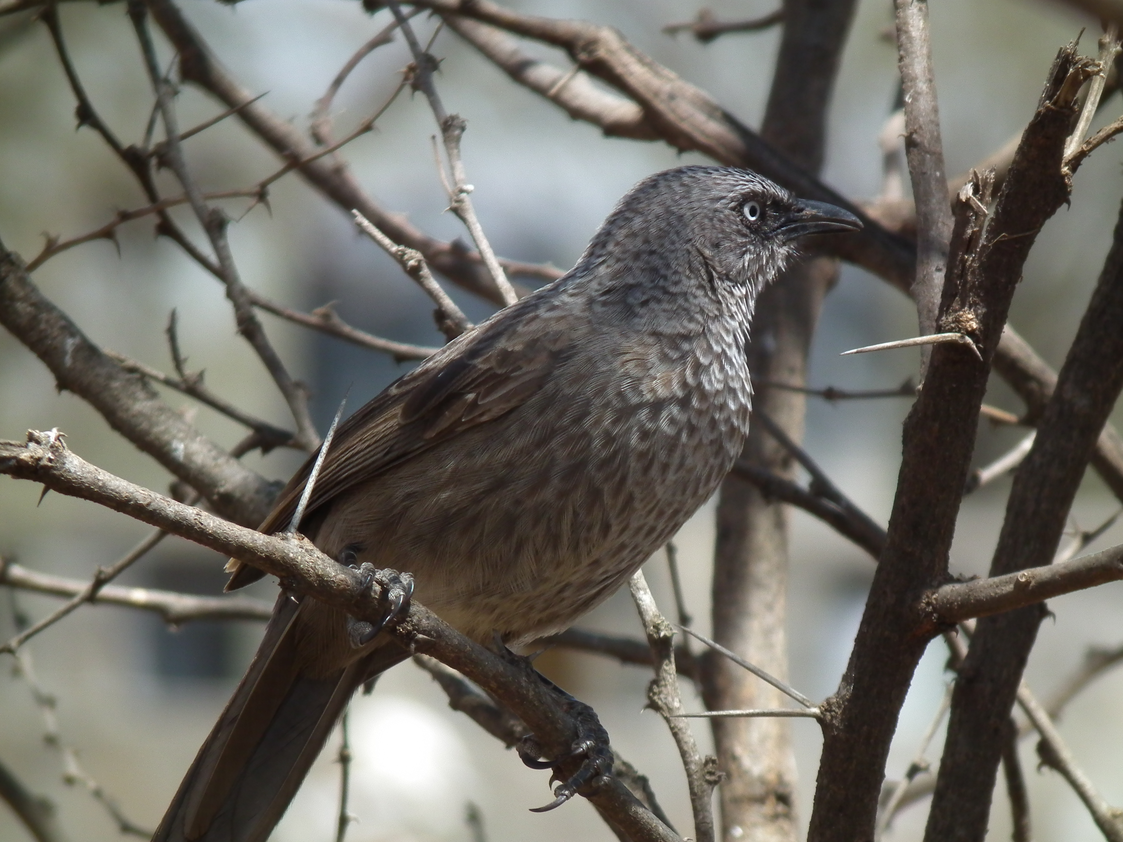 Black-lored Babbler (Turdoides melanops) in Tanzania